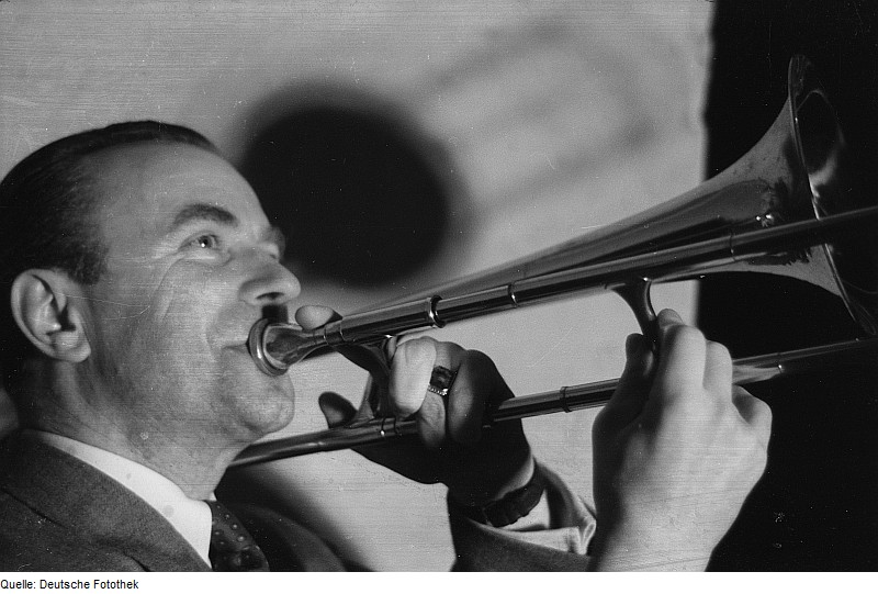 Original image description from the Deutsche Fotothek Portrait Walter Dobschinskis mit Posaune